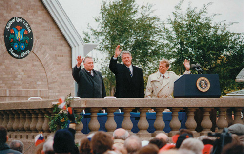 Three presidents dedicate the National Czech & Slovak Museum & Library in Cedar Rapids, Iowa. Presidents include: Bill Clinton of the United States, Václav Havel of the Czech Republic and Michal Kováč of the Slovak Republic.